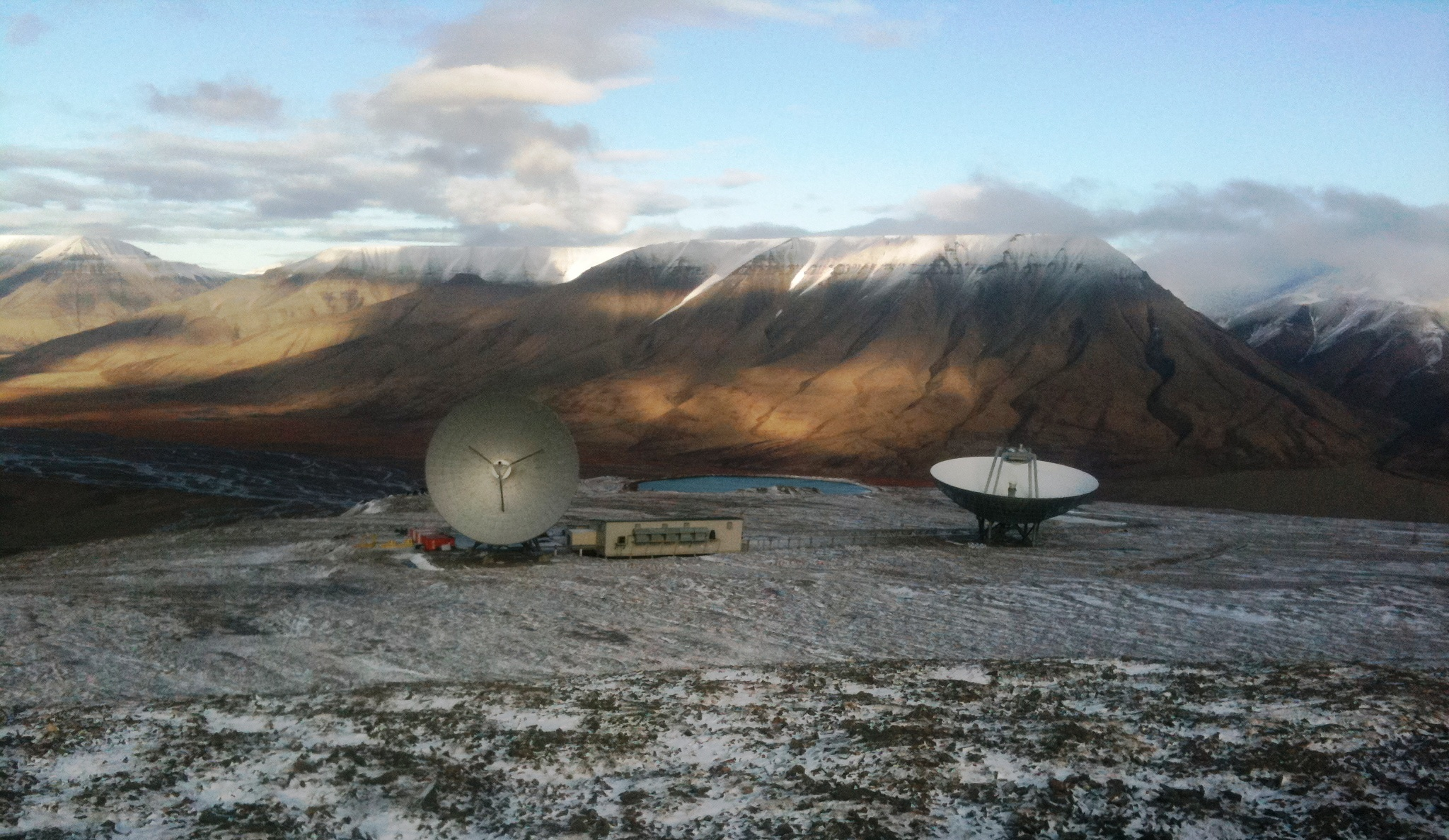 EISCAT antennas, above Adventdalen, Spitsbergen